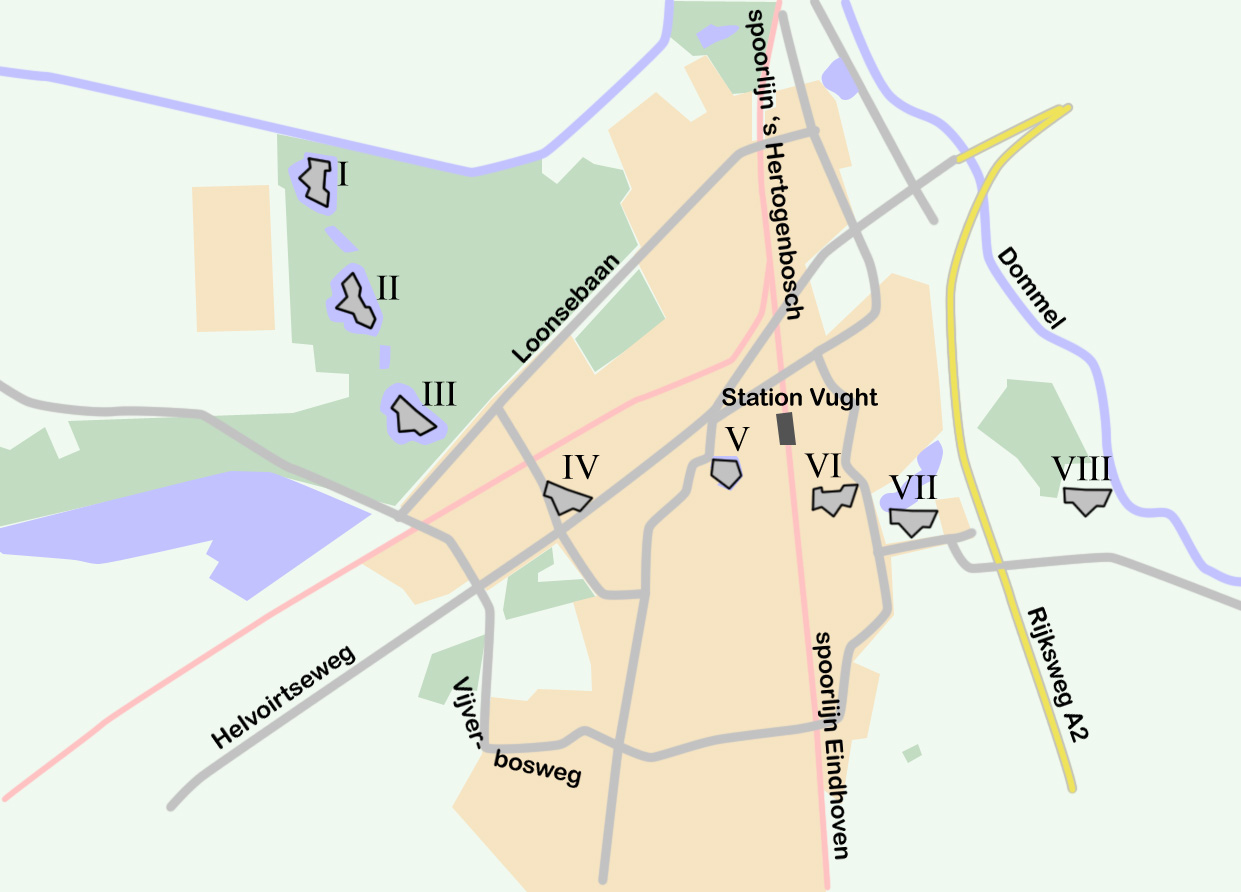 "Lunetten bij Vught" (military defensive line) in the Netherlands - Vught. Disclaimer: The exact location of the forts may differ from reality to a slight extent. Made by Niels Bosboom.